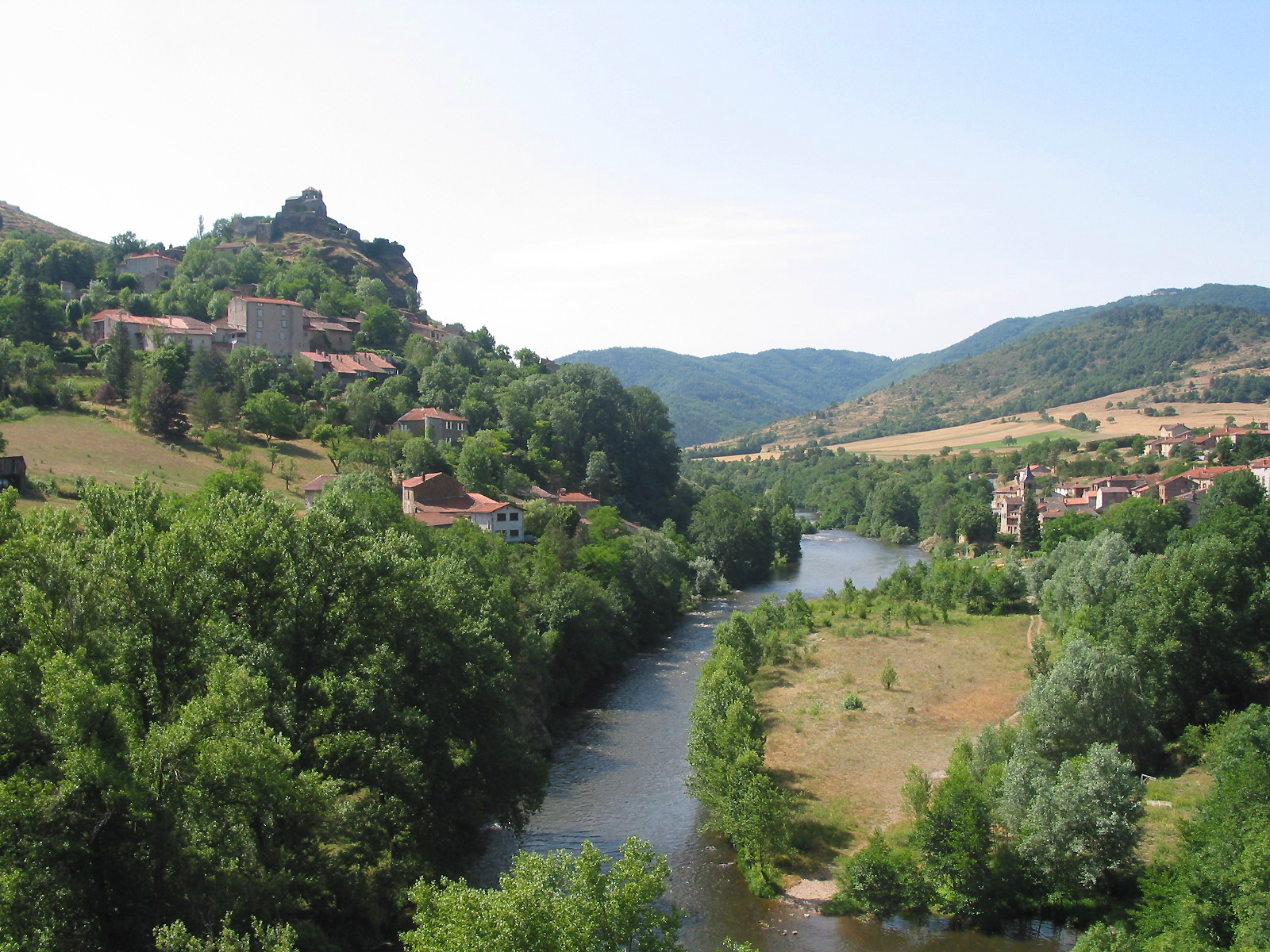 Villeneuve-d'Allier and Saint-Ilpize (Haute-Loire - France), the Allier River and the villages.